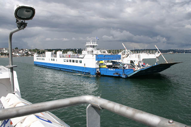 Torpoint Chain Ferry. Also known as a floating bridge. This photograph shows "Plym II" from "Plym I" as they pass in the centre of the Hamoaze, the main channel of the River Tamar as it reaches the sea. The ferry charges are the same as the toll on the Tamar Bridge: free to leave Plymouth but a toll to return. See the detailed comment on 64629 for more information.